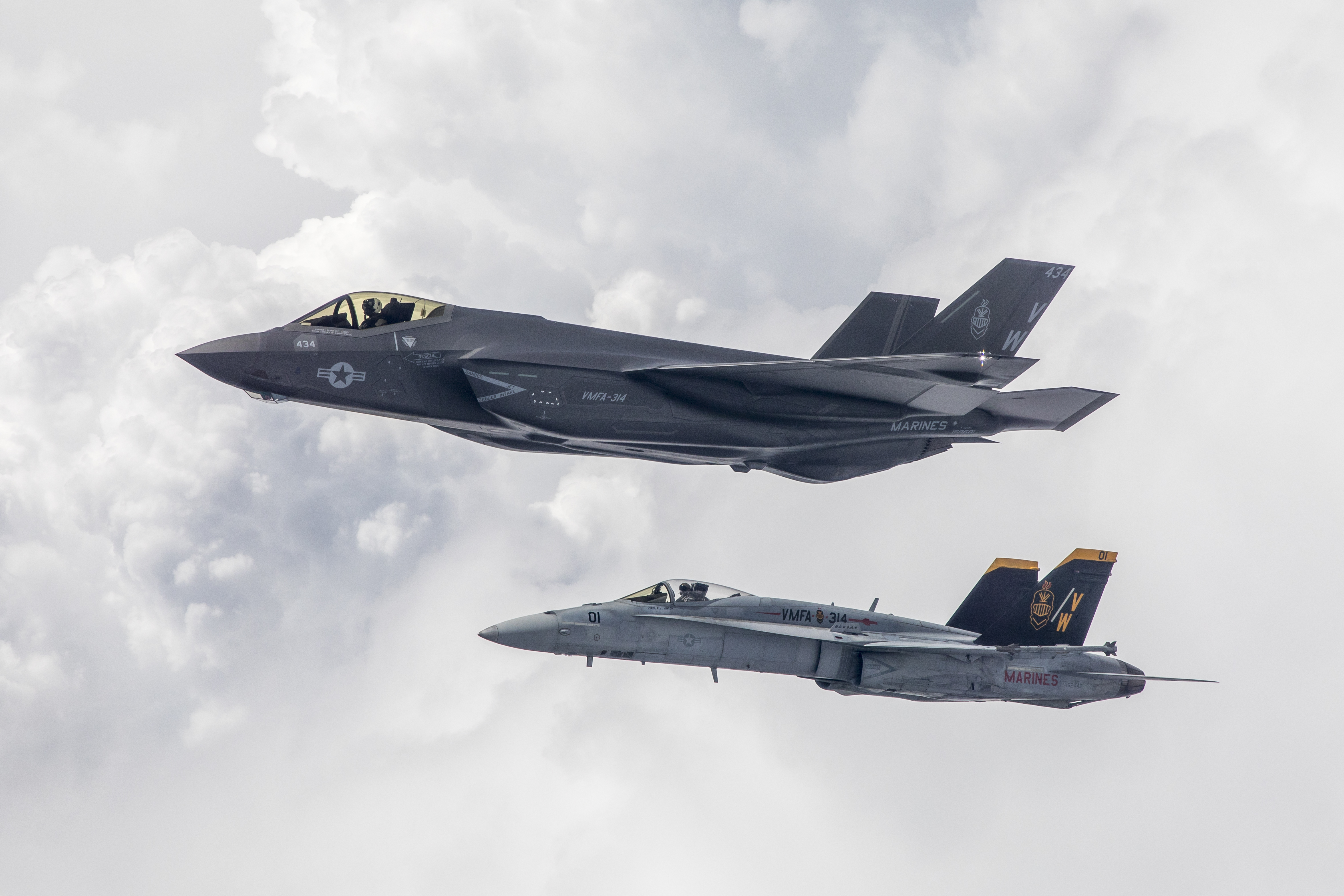 The first Lockheed Martin F-35C Lightning II (BuNo 169601) and a McDonnell Douglas F/A-18A++ Hornet (BuNo 162442) of Marine Fighter Attack Squadron 314 (VMFA-314) "Black Knights" in flight on 5 June 2019. The Lightning II was flown by Captain Tommy Beau Locke from Strike Fighter Squadron 125 (VFA-125) "Rough Raiders" from Naval Air Station Lemoore, California (USA), the Hornet was flown by Lt.Col. Cedar Hinton, as VMFA-314 was transitioning from the F/A-18A to the F-35C.